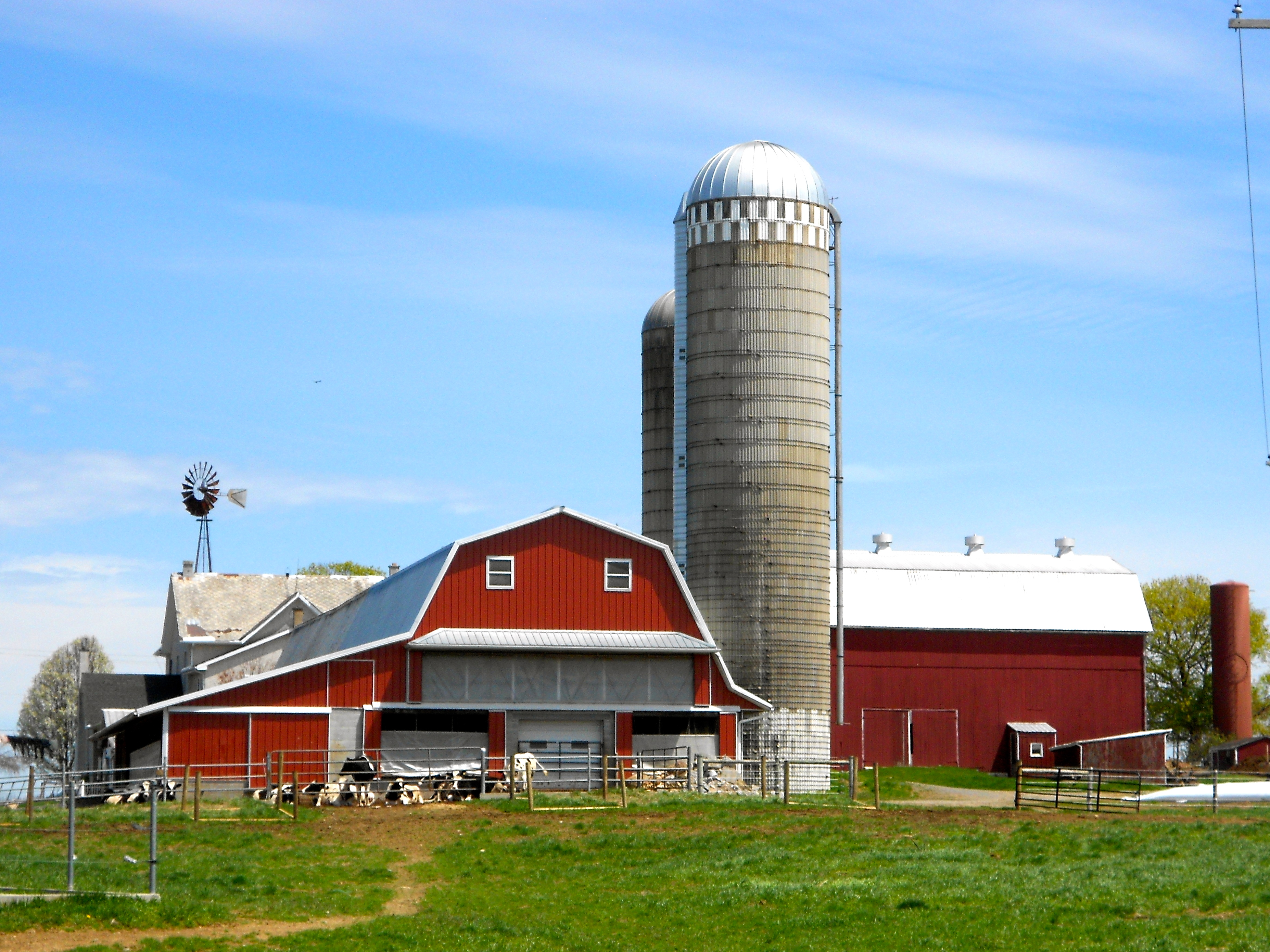 Farm in Honeybrook Township, Chester County, Pennsylvania